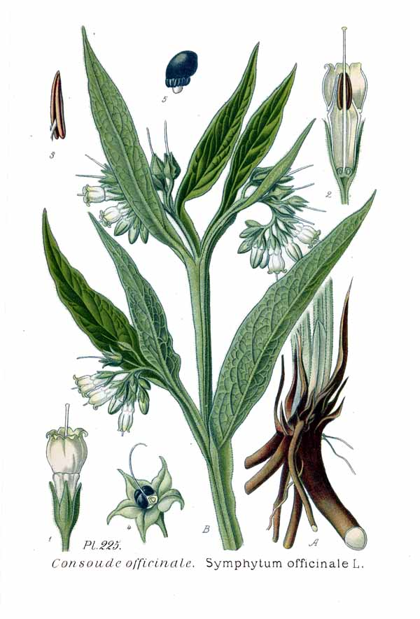 Symphytum officinale L.